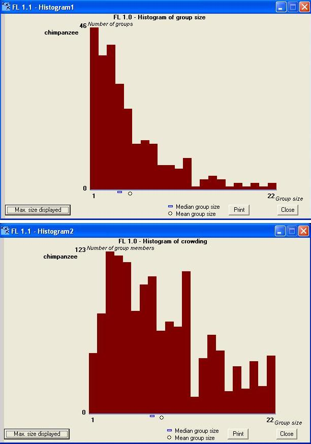 The distribution of chimp groups (above) and the distribution of chimp individuals across group size categories.